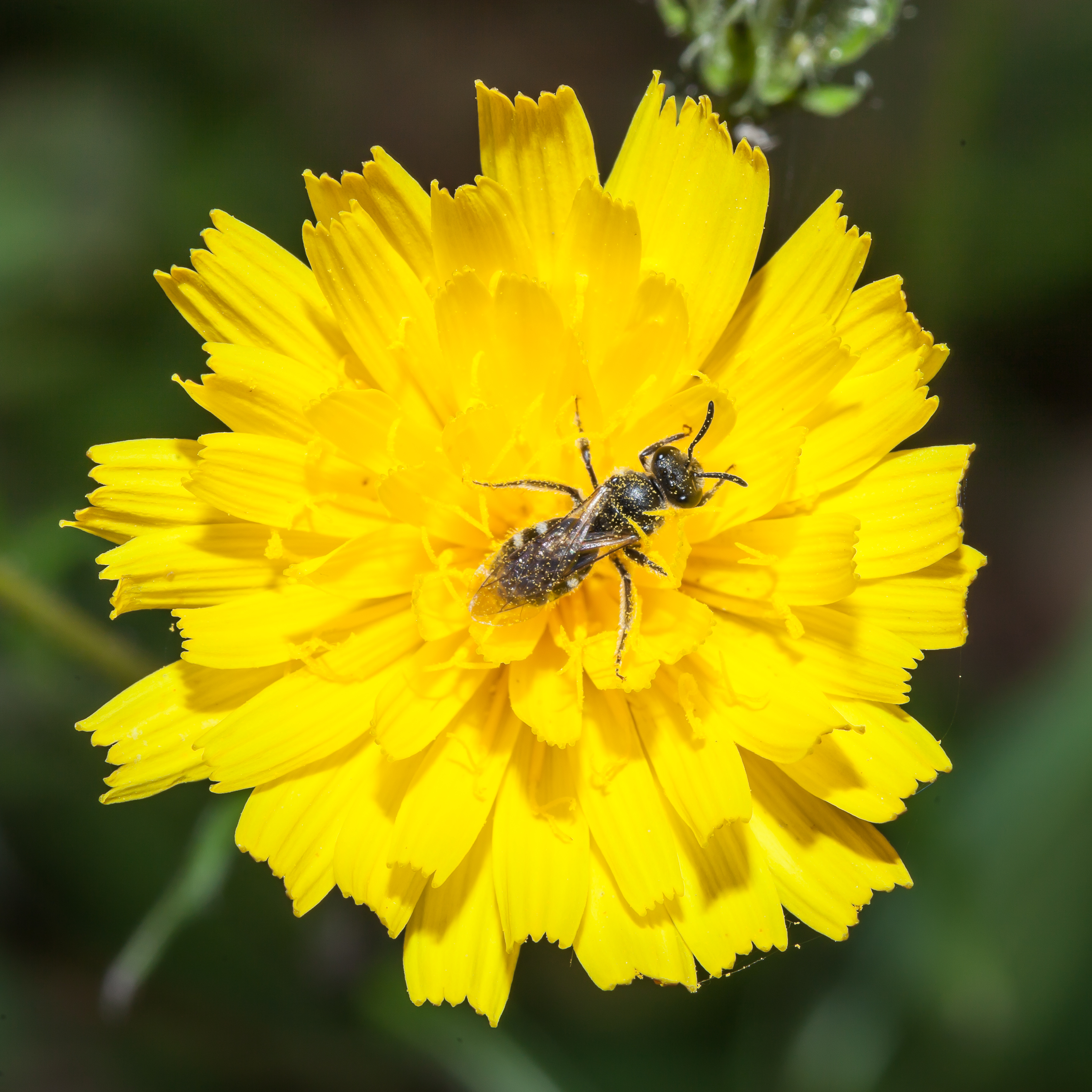 Picris hieracioides and Insect. Valverde, Vilarromarís, Oroso, Galicia, SpainGalego: Picris hieracioides e insecto en Valverde, Vilarromarís, Oroso, Galiza Determinada en por Álvaro Izuzquiza